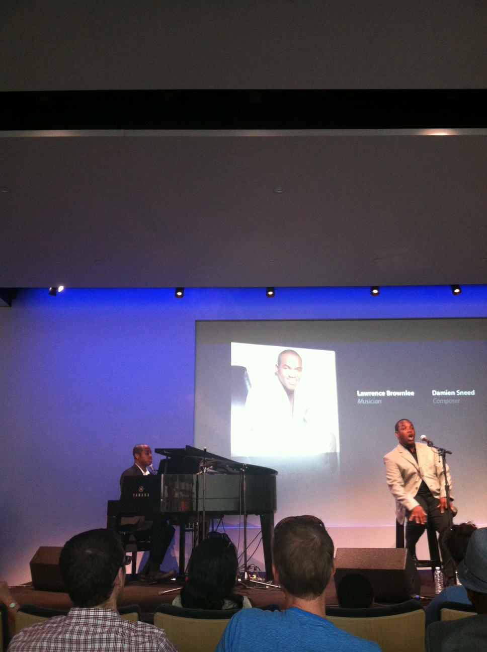 Lawrence Brownlee and Damien Sneed singing selections from "Spiritual Sketches" at Soho Apple Store